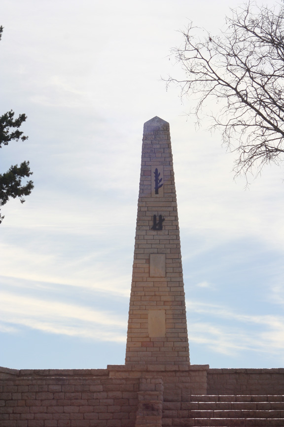 Safed monument Beivushtang 08:34, 16 November 2006 (UTC)